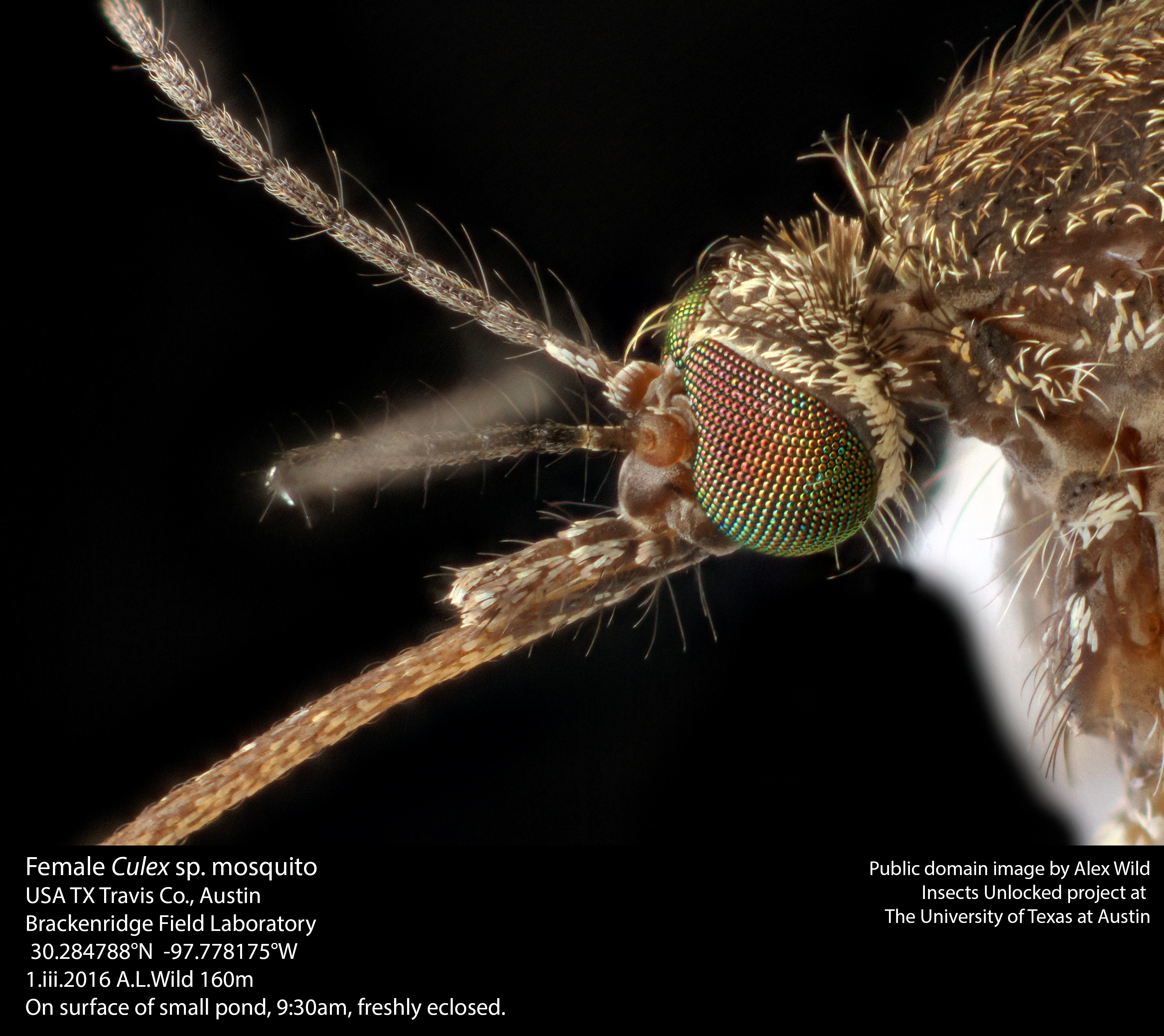 Female Culex sp. mosquito. USA TX Travis Co., Austin Brackenridge Field Laboratory 30.284788°N -97.778175°W 1.iii.2016 A.L.Wild 160m On surface of small pond, 9:30am, freshly eclosed. Many larvae present.